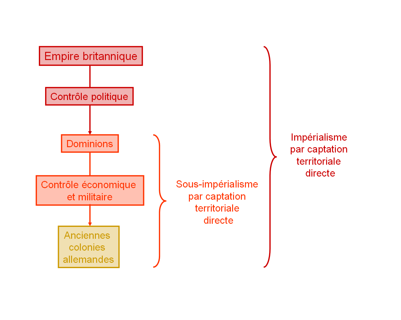 Imperialist model, with sub-imperialist constituent, of control with direct territorial illegal securement within the framework of the British Dominions